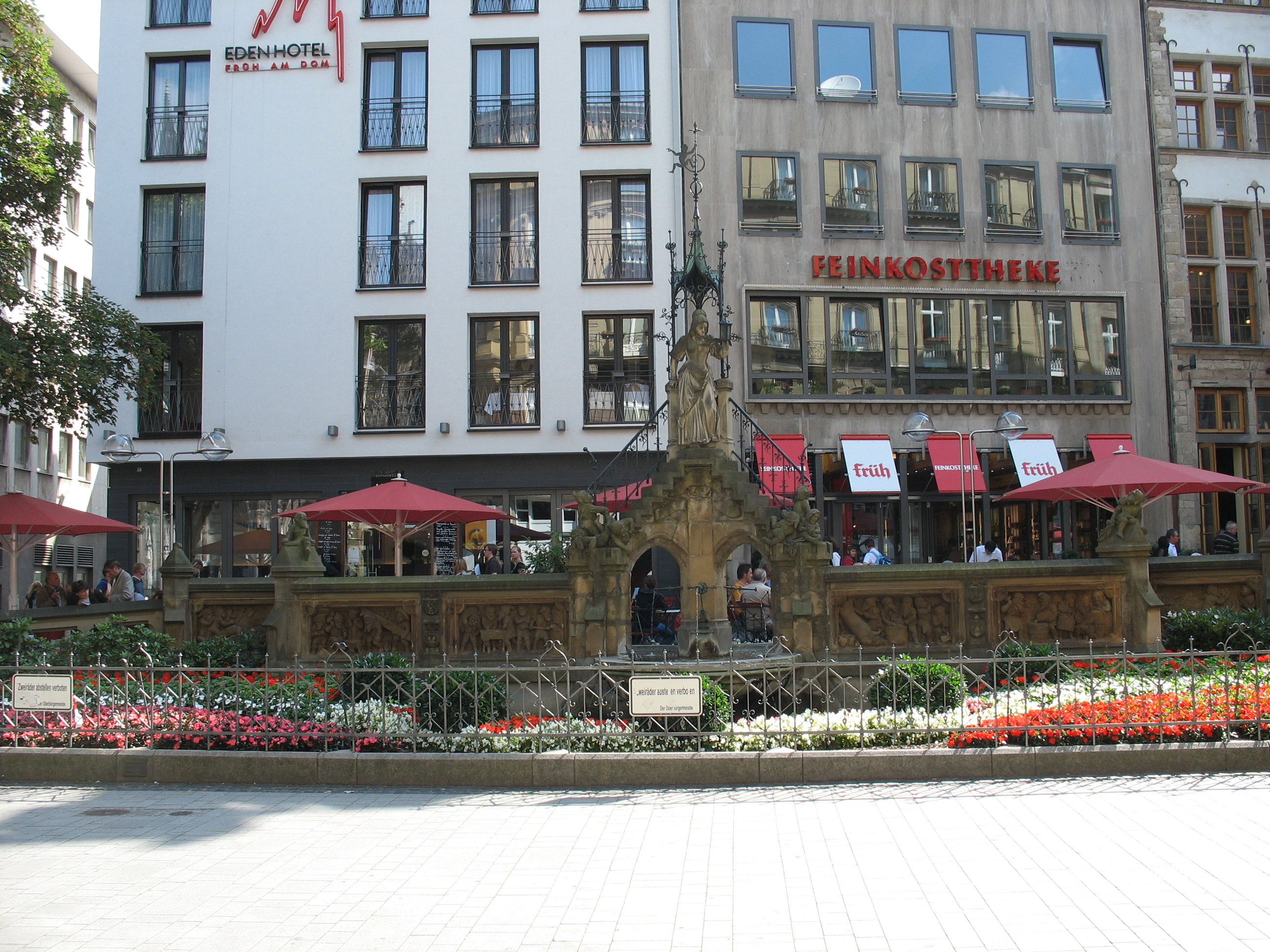 Heinzelmaennchenbrunnen in Cologne